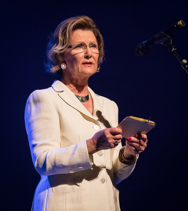 H.M. Queen Sonja at the opening concert of the 2017 Oslo Jazzfestival. The event took place at the main stage in Oslo Opera House on 12. August 2017. Lineup: H.M. Queen Sonja (opening remarks), Manu Katché (drums), Tore Brunborg (saxophone), Ellen Andrea Wang (double bass), Mathias Eick (trumpet), Bugge Wesseltoft (piano), Trygve Seim (saxophone), Jacob Young (guitar), Petter Wettre (saxophone), Edvard Askeland (introduction), Ellen Horn (introduction) and Bjørn Stendahl (award recipient).